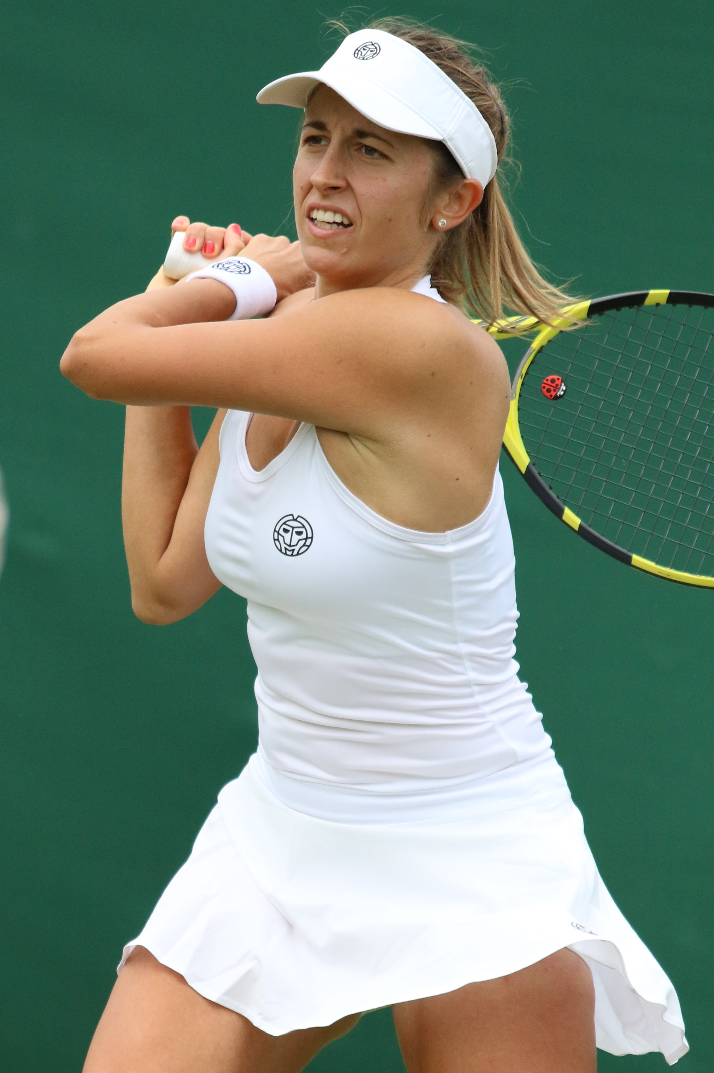 2019 Wimbledon Qualifying Tournament.